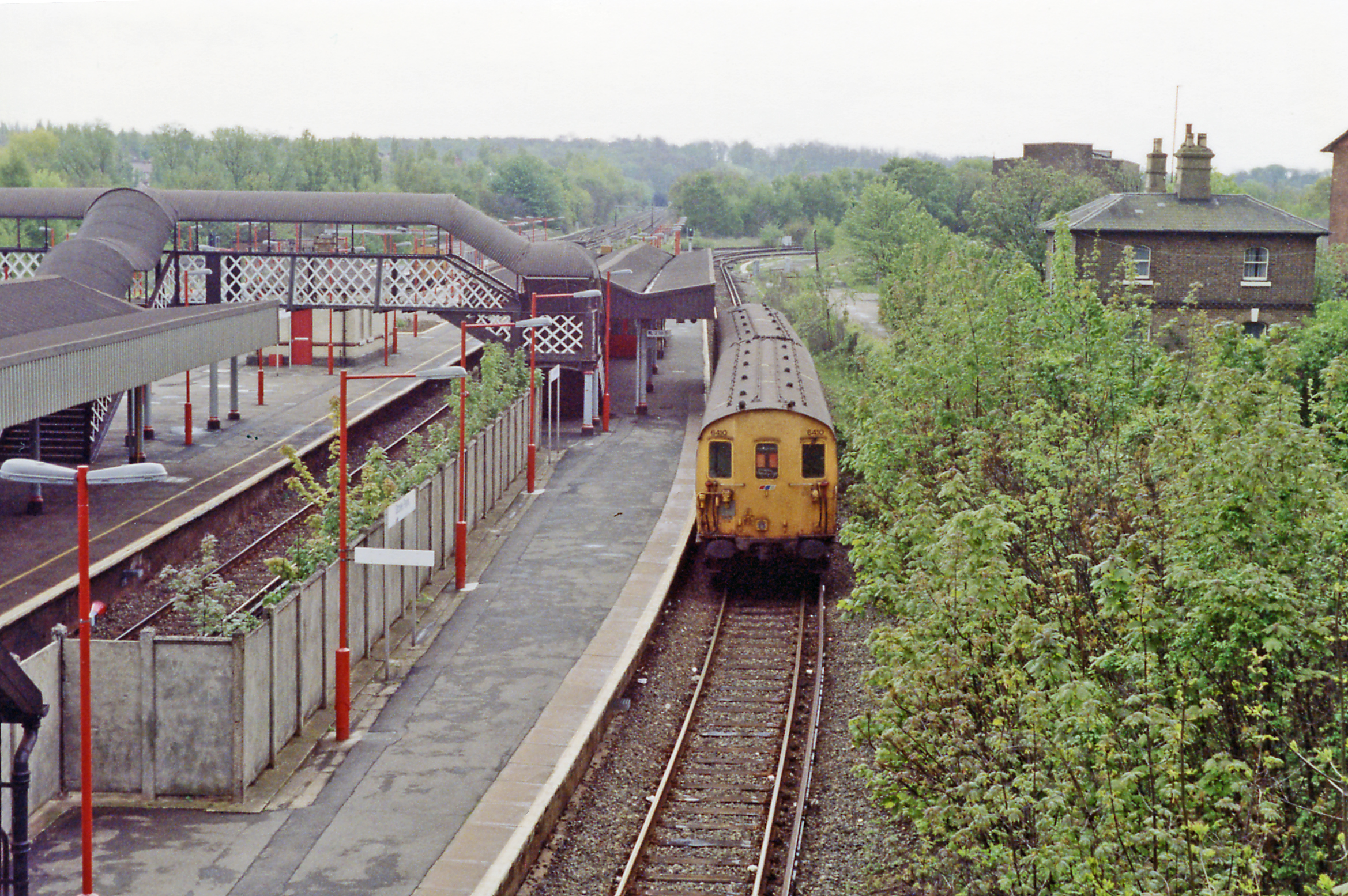 Grove Park station, 1992. View SE from Baring Road bridge, towards Orpington, Tonbridge etc., also Bromley North (to the right): ex-SE&CR Charing Cross/Cannon Street to SE London suburbs and main line via Sevenoaks and Tonbridge to Ashford, Folkestone and Dover; junction of branch to Bromley North. A 2EPB EMU is in the Bromley bay.